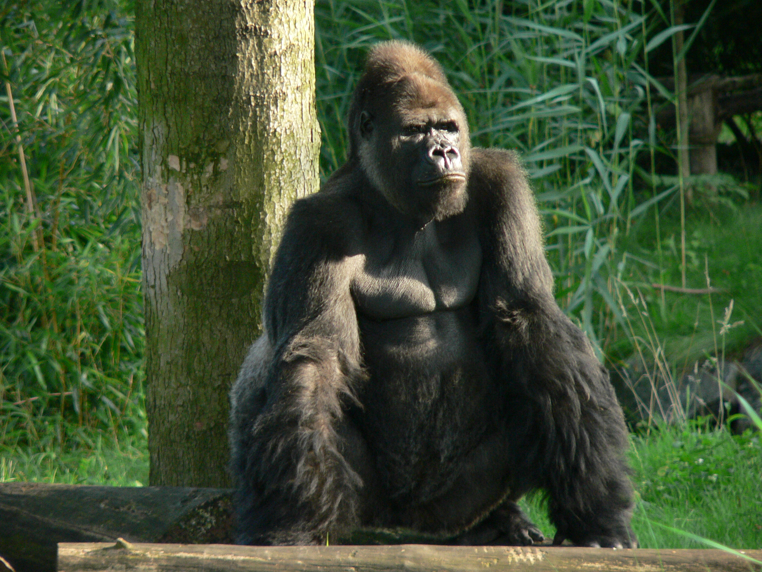 Male silverback gorilla "Gorgo" (*1981) in the Leipzig Zoo.